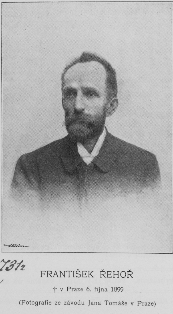 Portrait of František Řehoř (1857-1899), Czech ethnographer focused on Ruthenians (Ukrainians) in Western Galicia around Lviv.